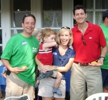 Later White House Chief of Staff & Later Speaker of the United States House of Representatives